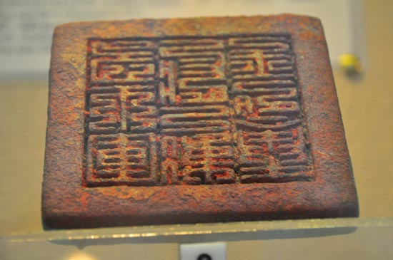 Seal of Hồng Đức Emperor